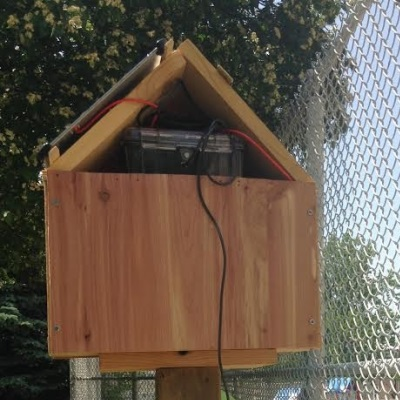 This is an example of a greenSTEM birdhouse